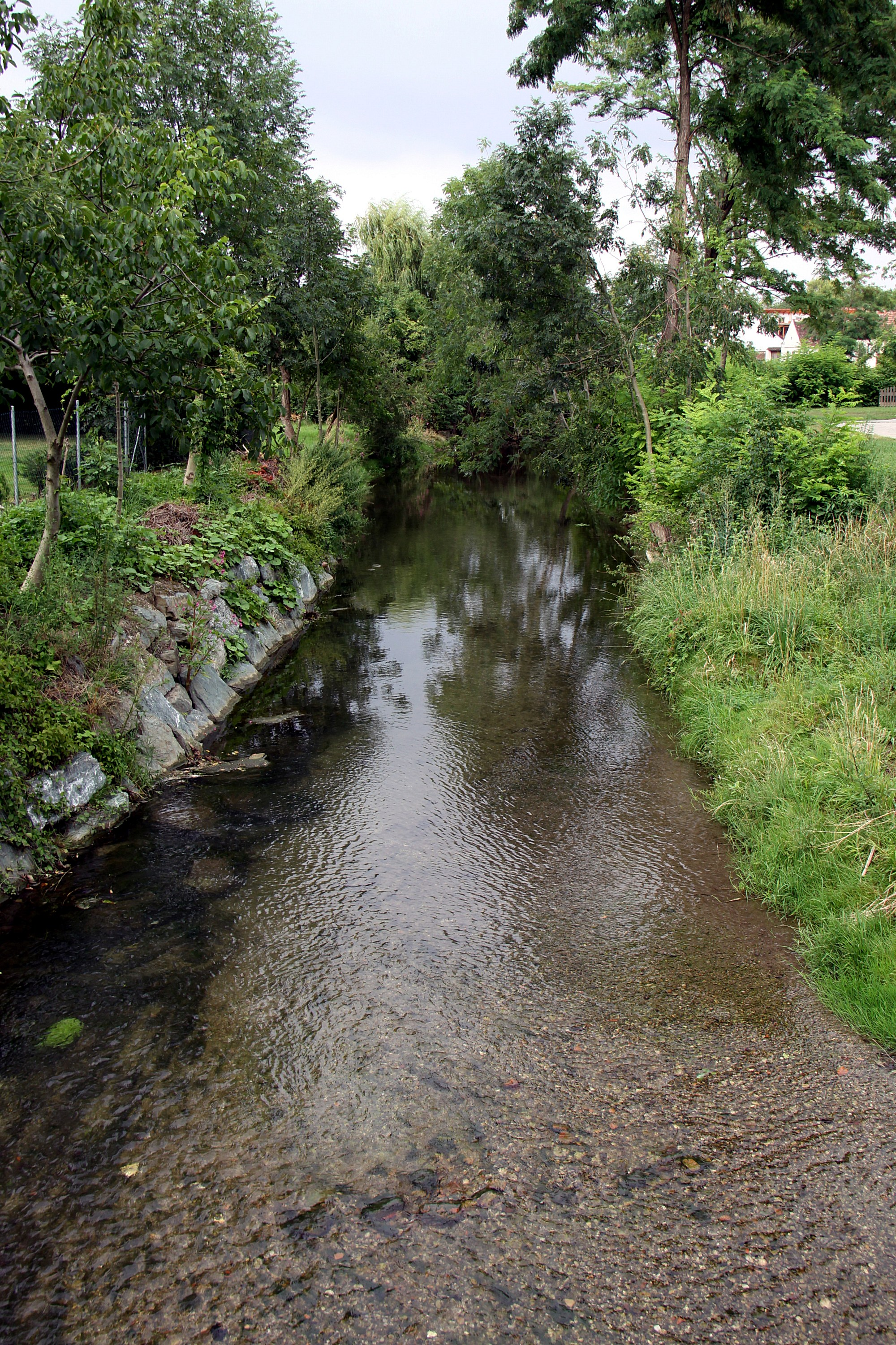 Wulka - Pöttelsdorf Object location47° 45′ 07.34″ N, 16° 26′ 15.18″ E